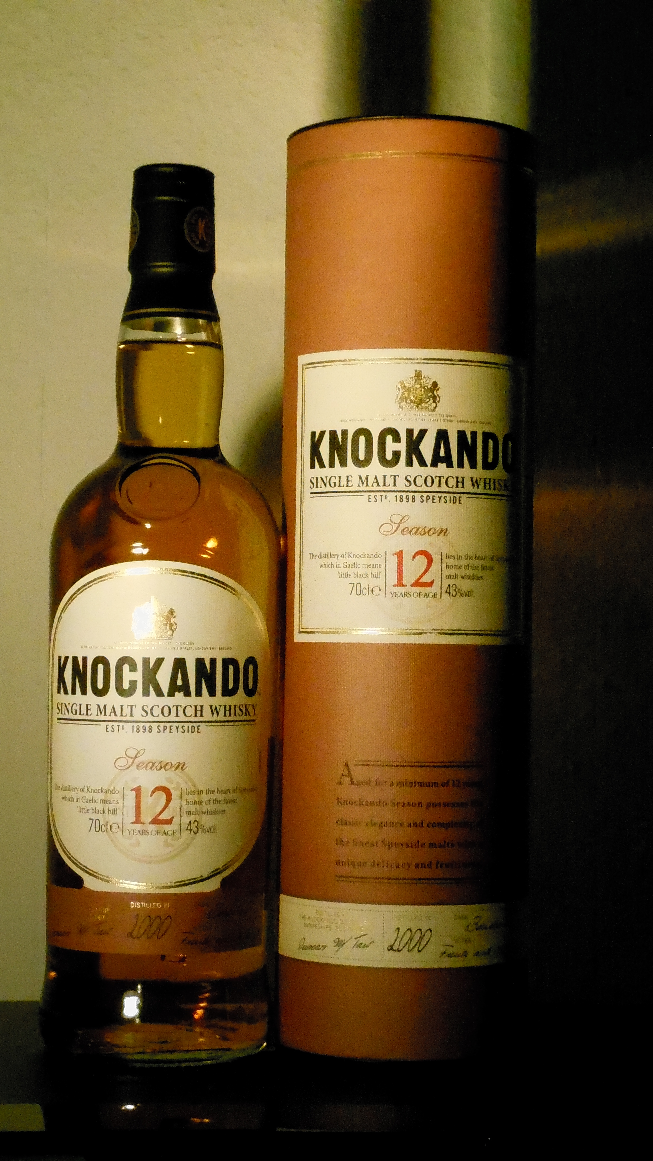 A bottle of Knockando Whisky, 12 years